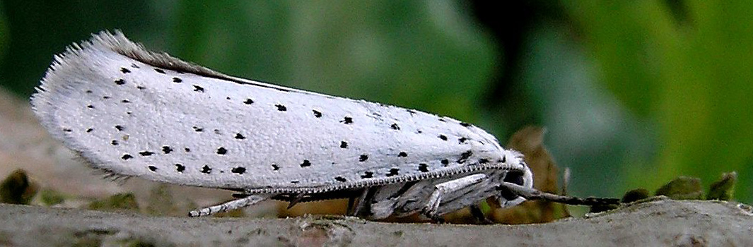 An ermine moth, Yponomeuta sp., probably Yponomeutal evonymella which has 5 lines of dots on each wing. Photographed resting on a Birch in The Hague, The Netherlands. Photo by Jens Buurgaard Nielsen